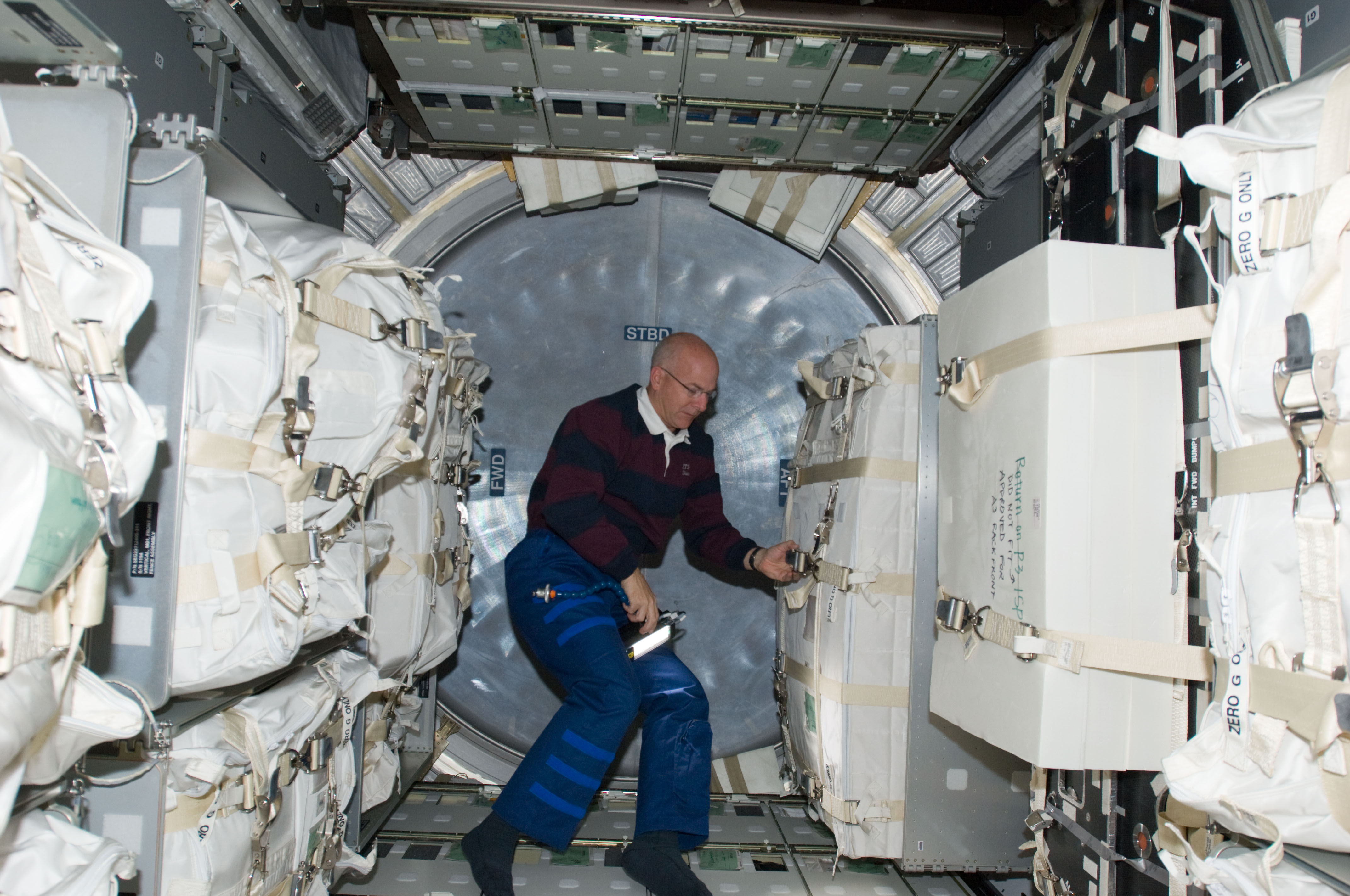 NASA astronaut Alan Poindexter, STS-131 commander, works in the Leonardo Multi-purpose Logistics Module (MPLM) linked to the International Space Station while space shuttle Discovery remains docked with the station.